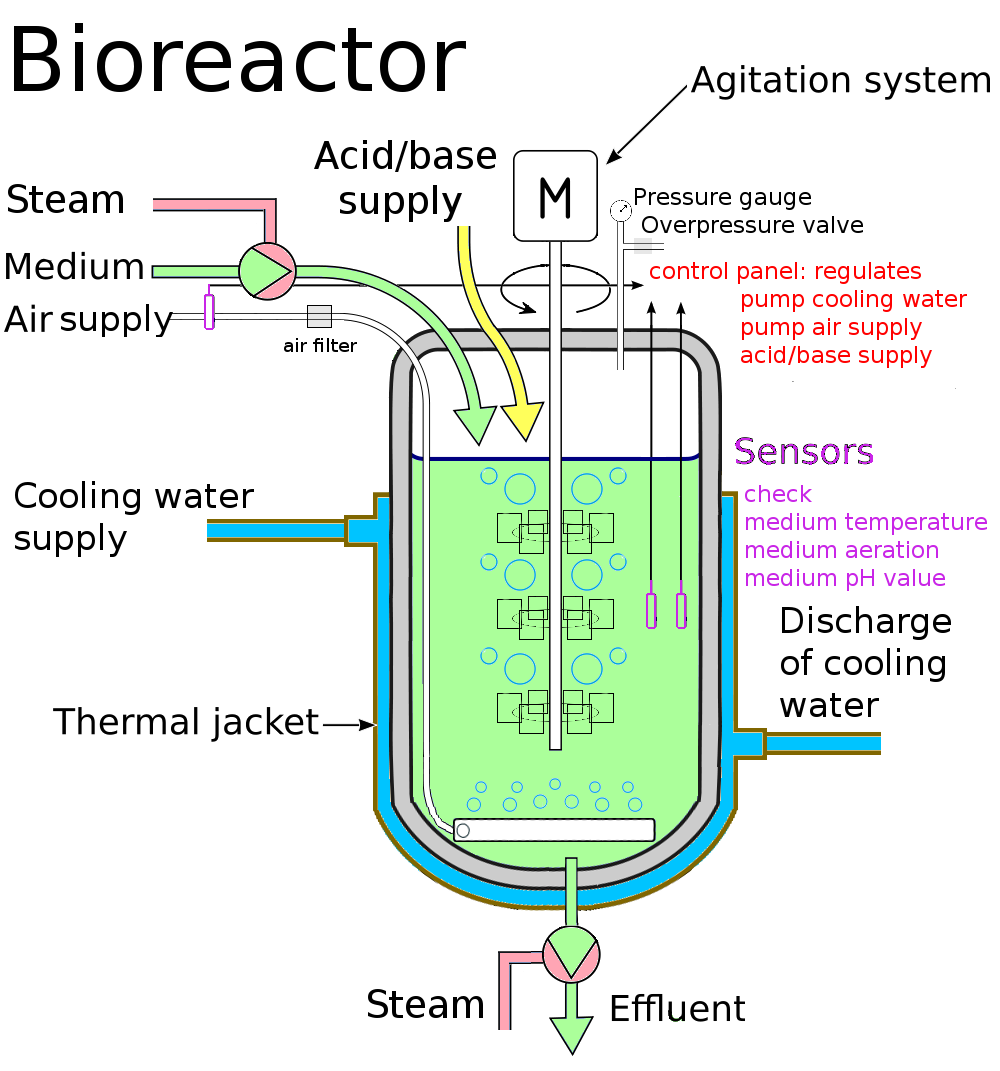 A schematic of a bioreactor as how it works in real life. The schematic was made based on and on information in the book "Wie functioniert das ? Technik heute, F.A. Brockhaus AG, Mannheim 1998. Note that it may be possible that some bioreactors are also capable of controlling the motor for the agitation, based on the data from the sensors. Some valves are not shown. The steam seems to be used to prevent contamination in/from inlet/outlet pipes.